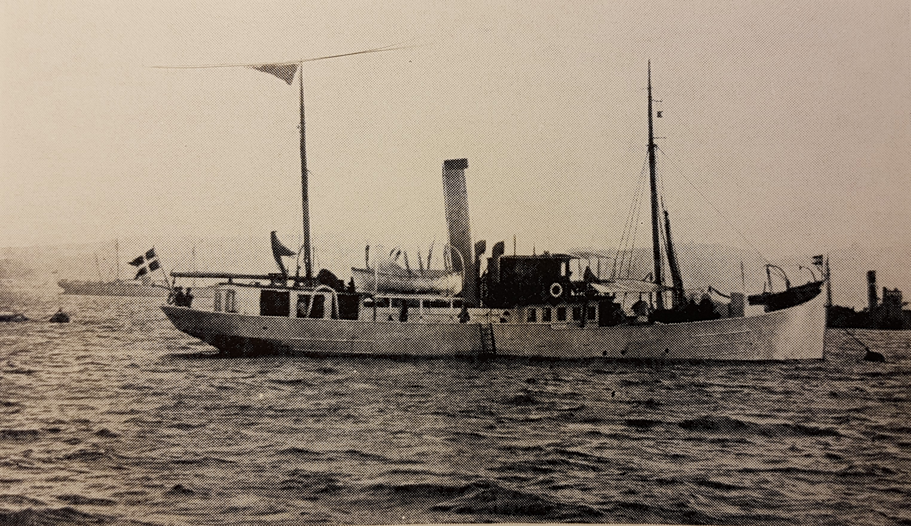 Thor was a steam trawler, build in Newcastle upon Tyne 1899 and used for oceanographic research in the Atlantic and Mediterranean Oceans in the years 1903-1927.